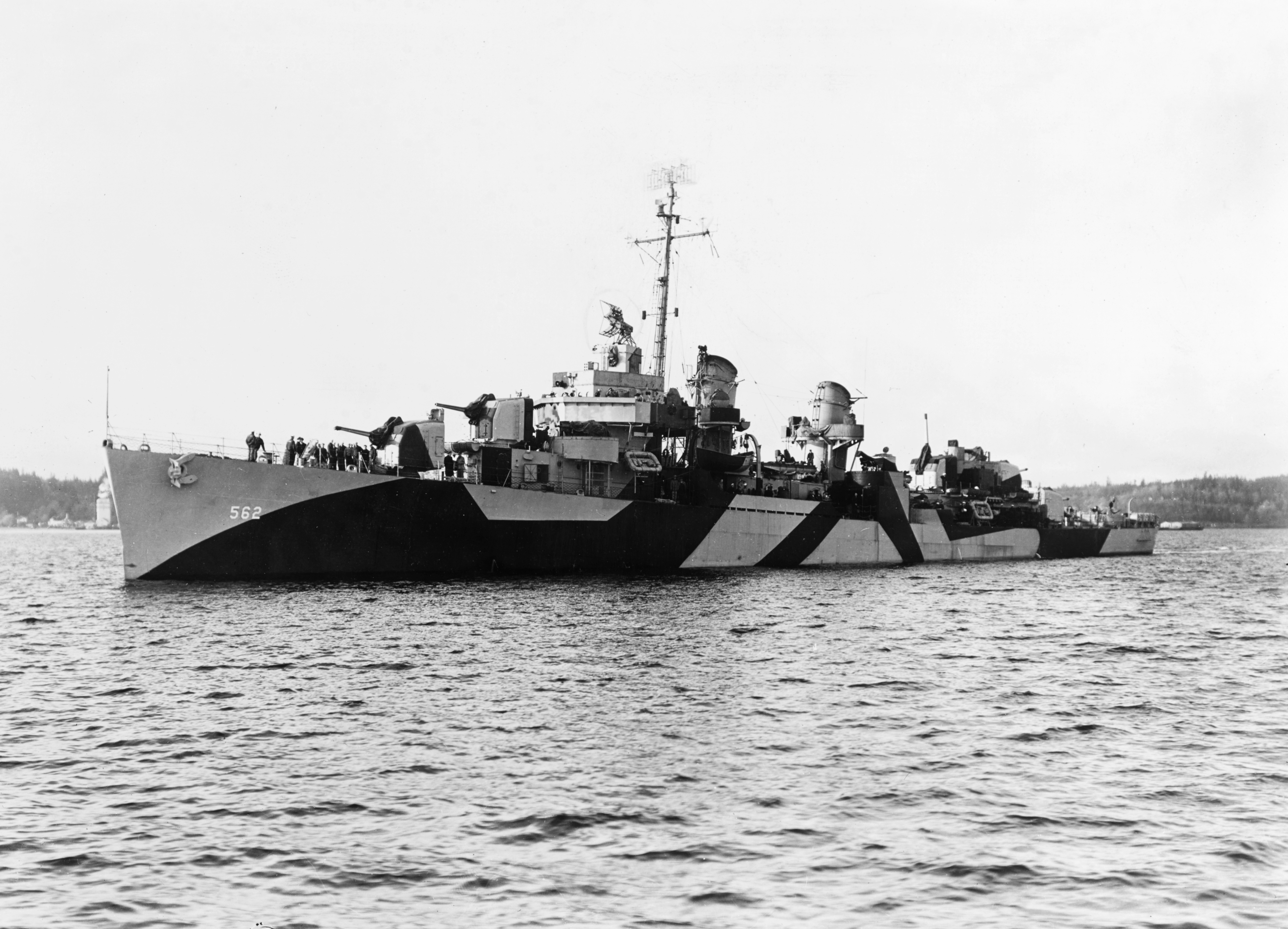 The U.S. Navy destroyer USS Robinson (DD-562) off the Puget Sound Naval Shipyard, Washington (USA), on 8 April 1944. She is wearing Camouflage Measure 32, Design 13D.